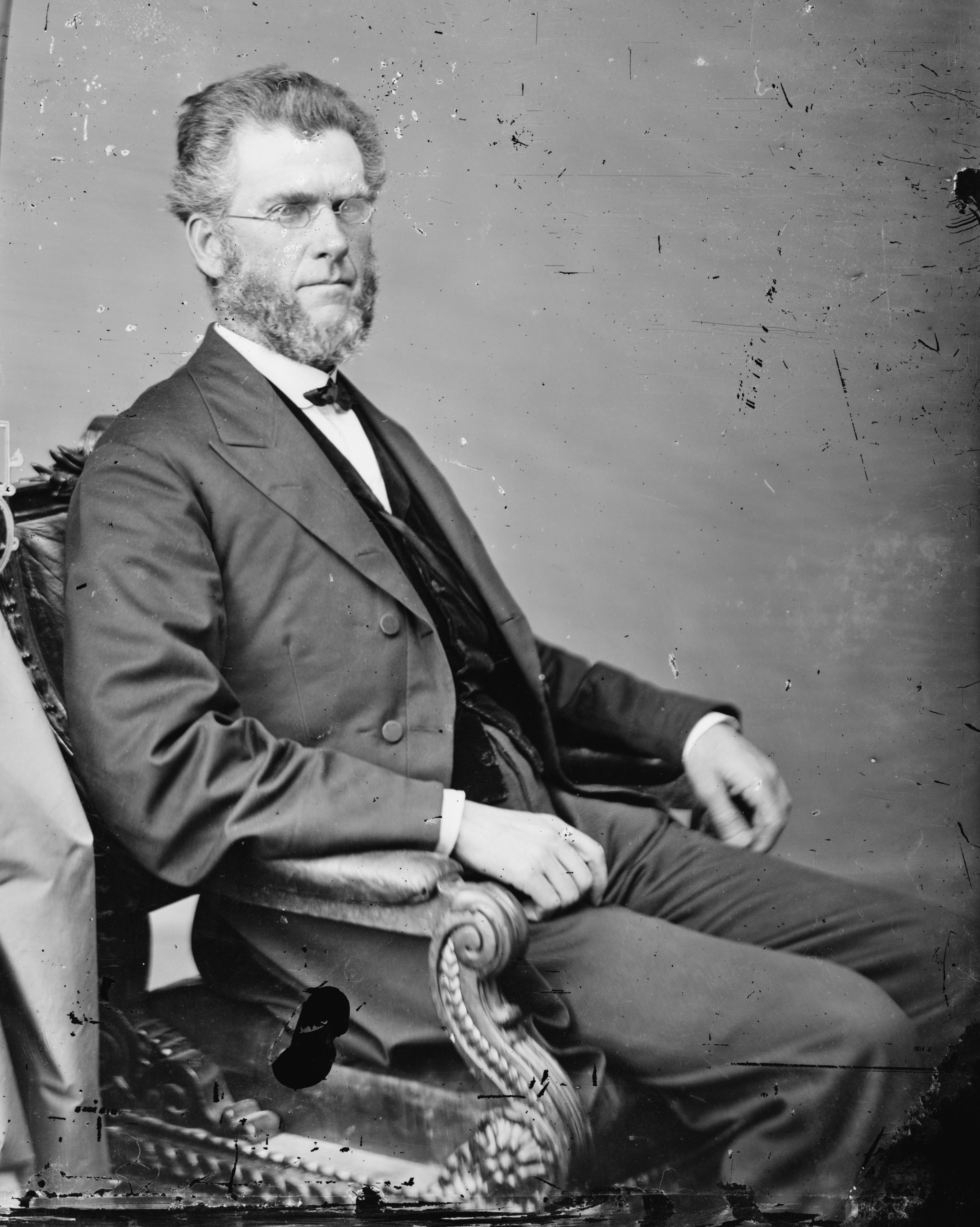 Thomas Tipton. Library of Congress description: "Hon. Thomas Weston Tipton of Neb."